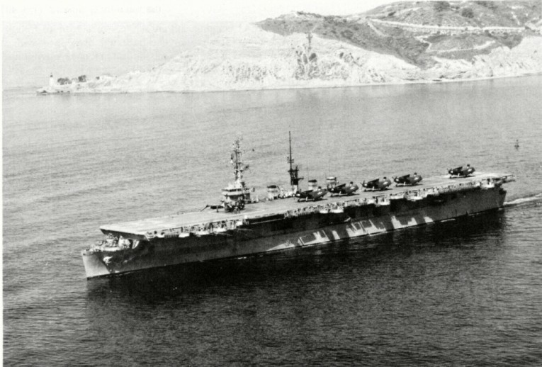 The light U.S. Navy aircraft carrier USS Wright (CVL-49) underway, probably taken in the early 1950s. On deck are Grumman AF-2S and AF-2W Guardian aircraft of Anti-Submarine Squadron 24 (VS-24).